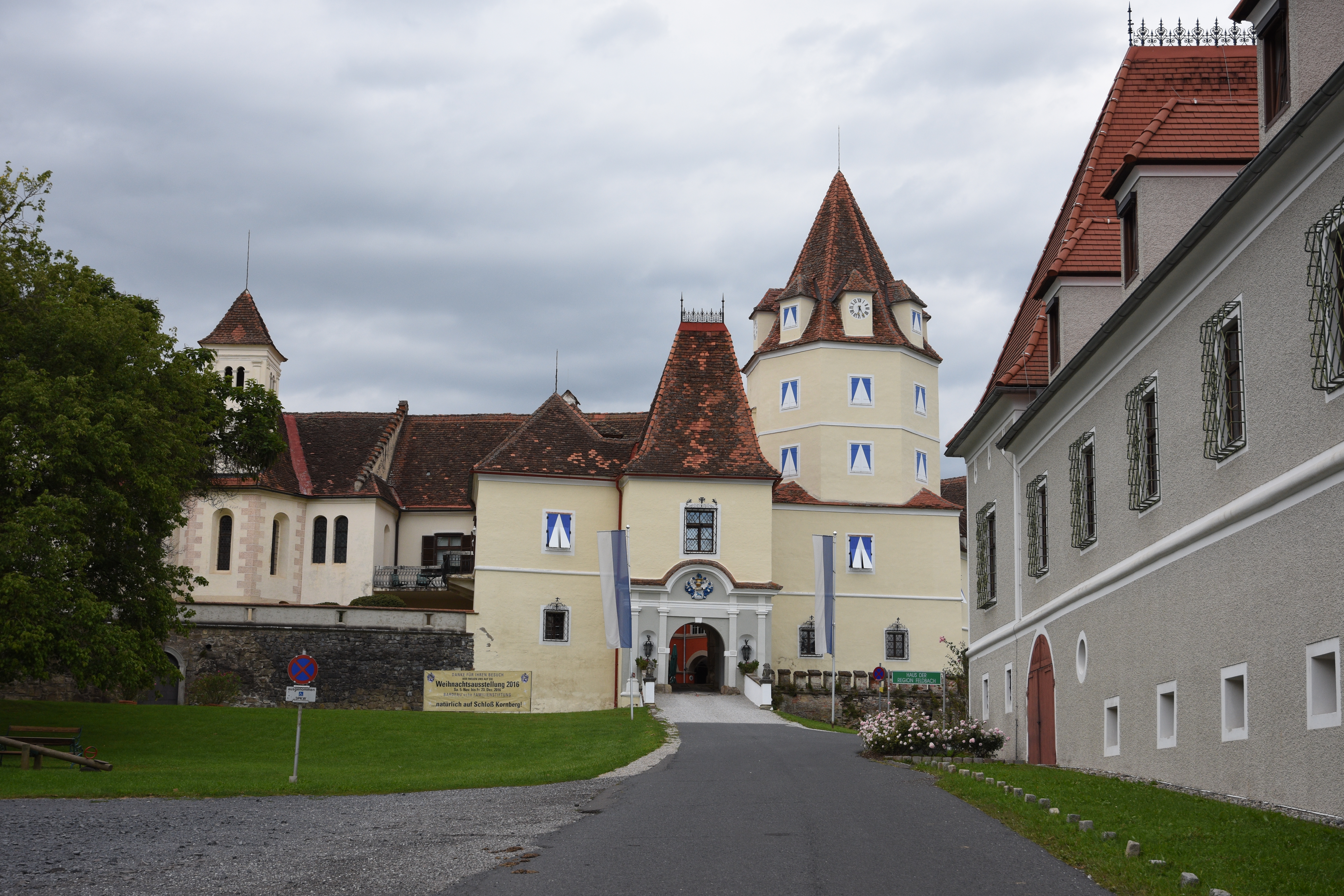 Castle Kornberg